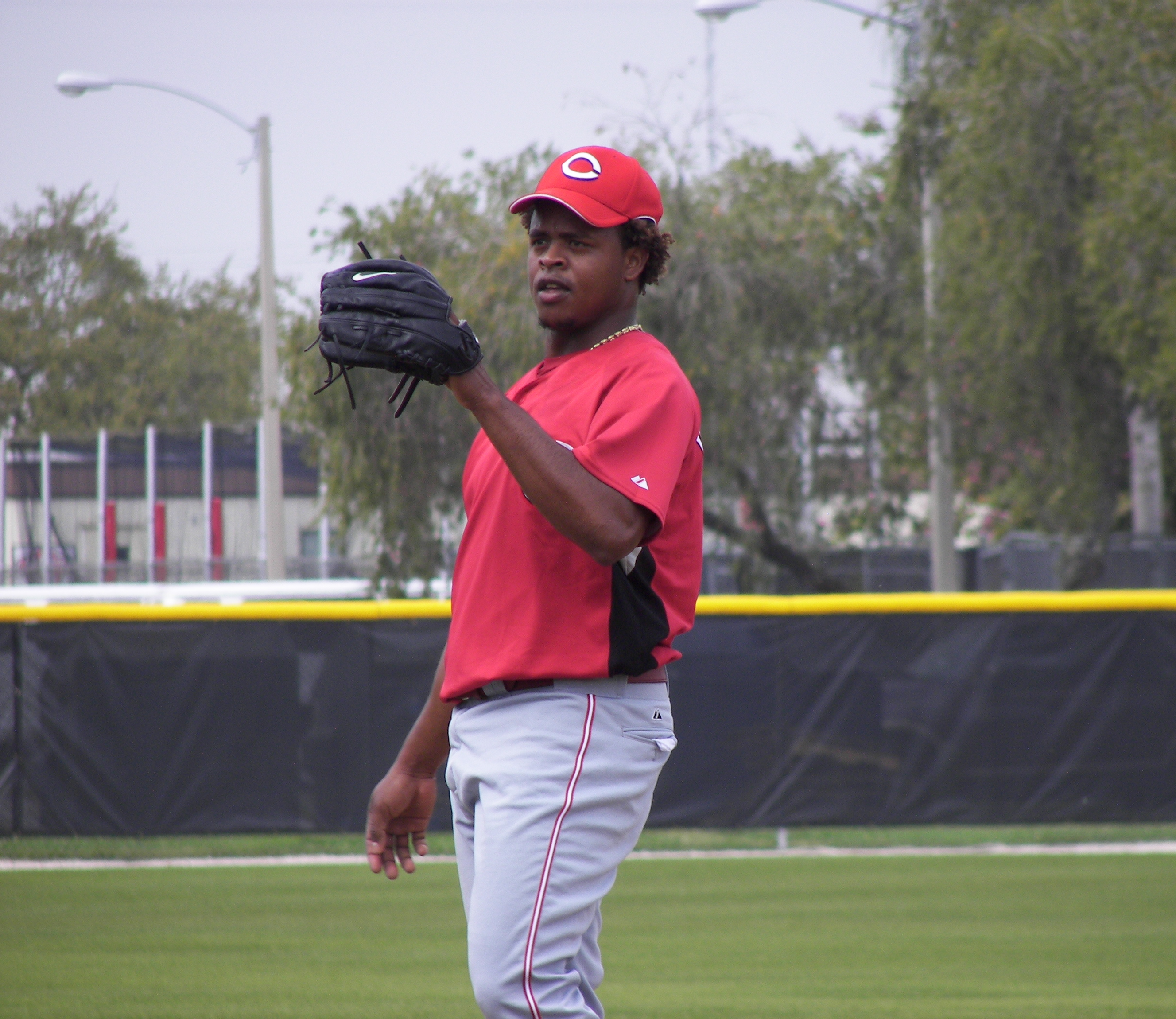 Cincinnati Reds pitcher Edinson Volquez during a Spring Training workout outside Ed Smith Stadium in Sarasota, Florida.